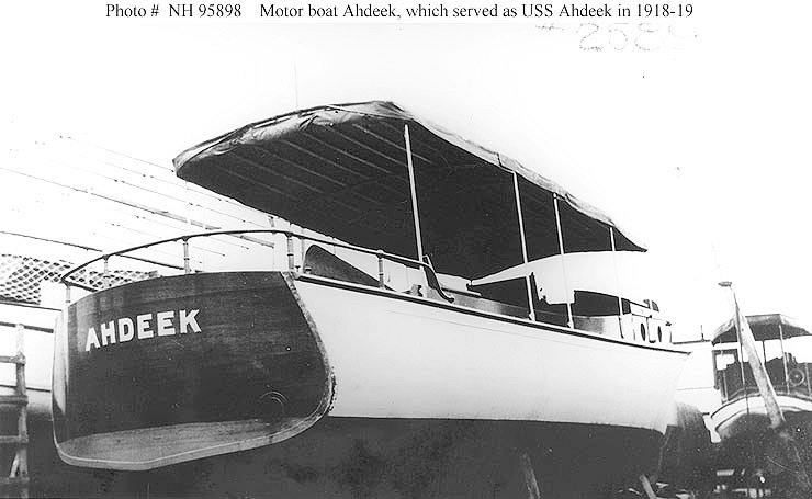 Hauled out of the water, circa 1916-1918. USN Photograph NH 95898